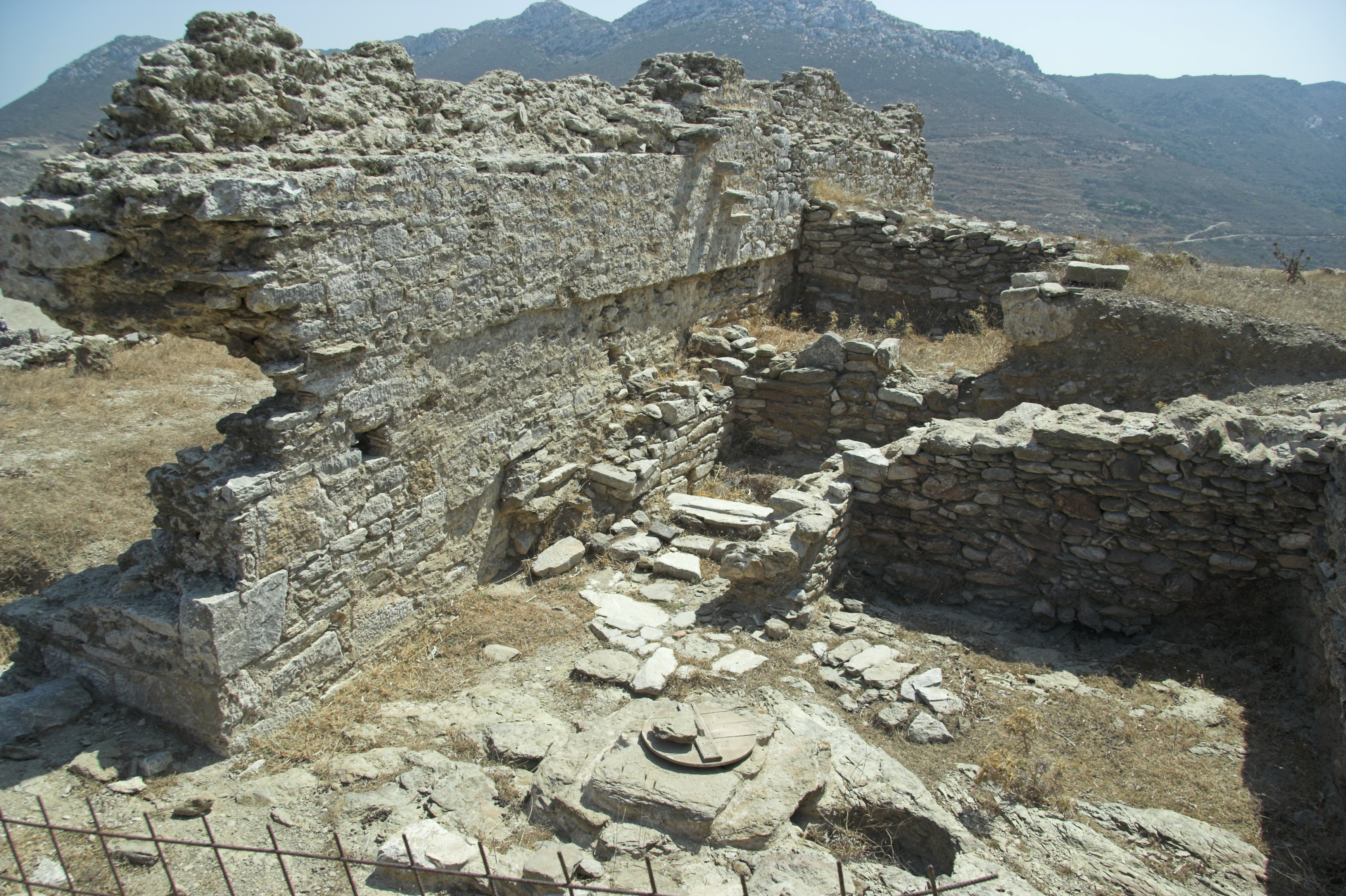 Minoa on Amorgos. Hellenistic and Roman buildings.